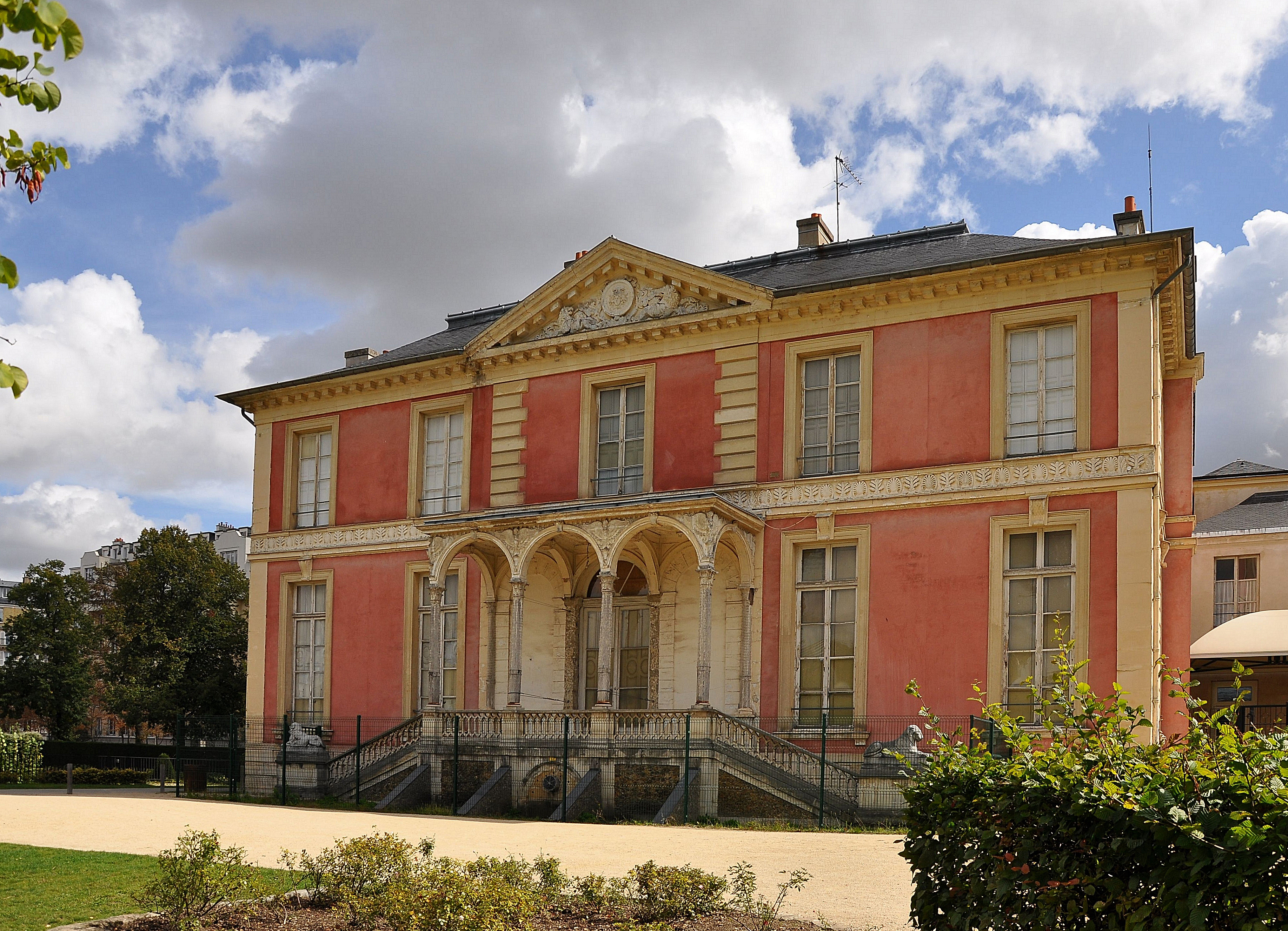 Folie Saint-James built by Bélanger in 1777 for Baudard de Vaudésir, baron of Saint James, general controller of Marine in Neuilly-sur-Seine near Paris